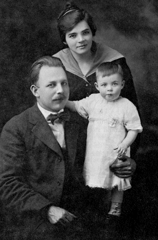 American Bible teacher, founder of the Radio Bible Class; photograph taken c. 1917 when DeHaan was a country physician.